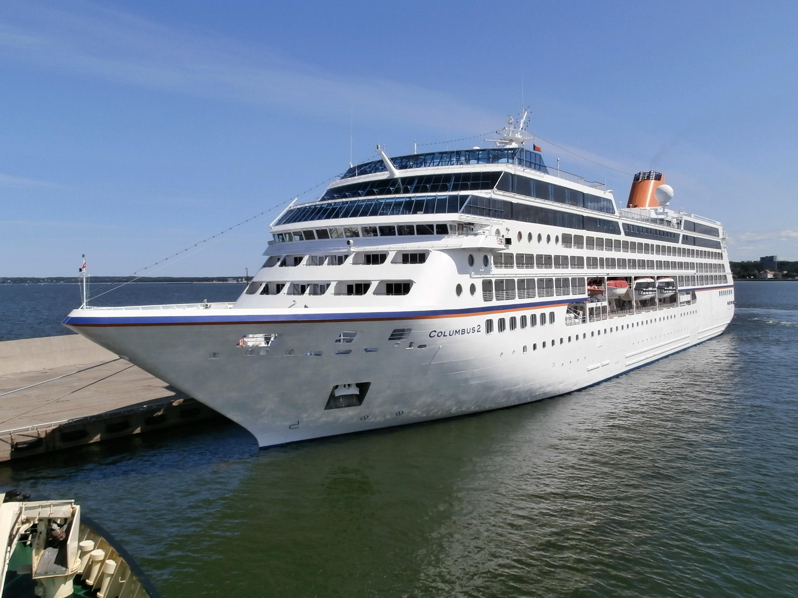 Cruise ship Columbus 2 at Quay 17 in Tallinn 13 July 2013